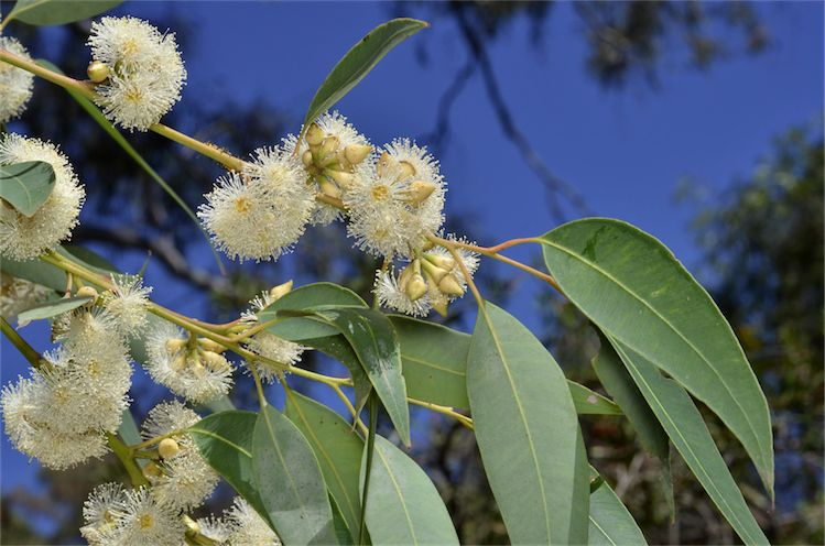 Foliage, flower buds and flowers of Eucalyptus notabilis in the Australian National Botanic Garden, Australian Capital Territory